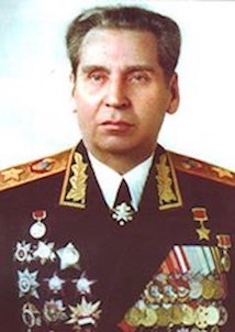 Enlarged photograph of Marshal Nikolai Ogarkov, Chief of the General Staff of the Soviet Armed Forces from 1977-1984.